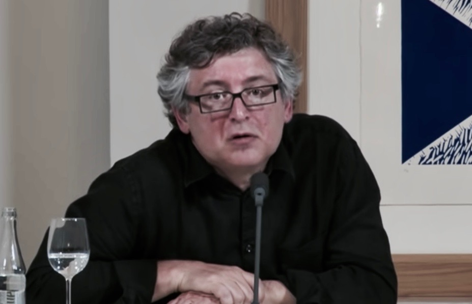 Michel Onfray is a french philosopher